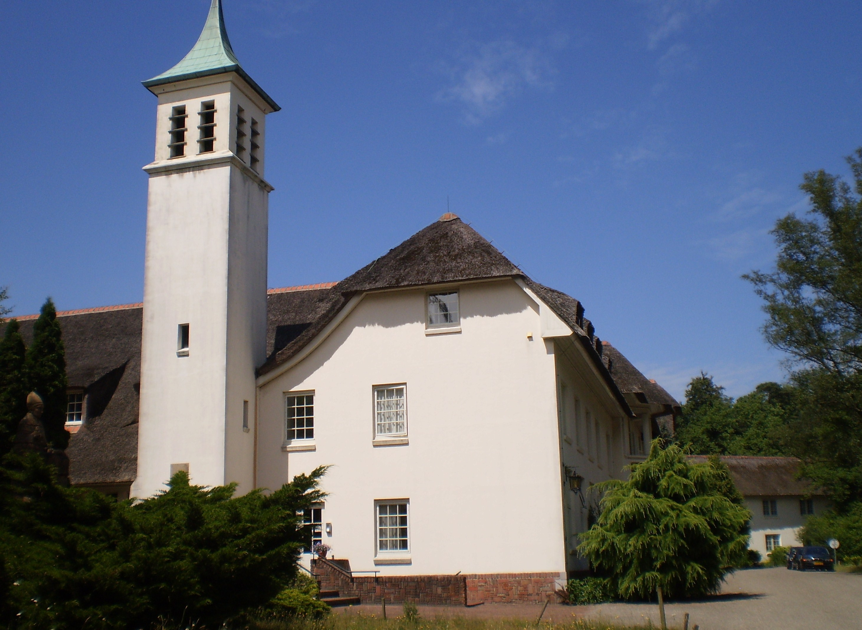 Monastery De Stad Gods (City of God) located south-east of Hilversum, The Netherlands.